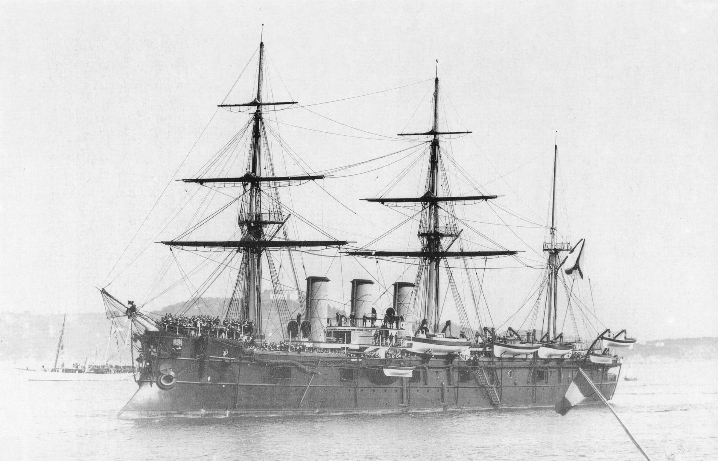 The Imperial Russian armoured cruiser Pamiat’ Azova.